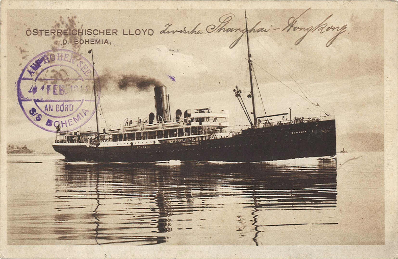 Picture postcard with SS Bohemia, stamped 1914